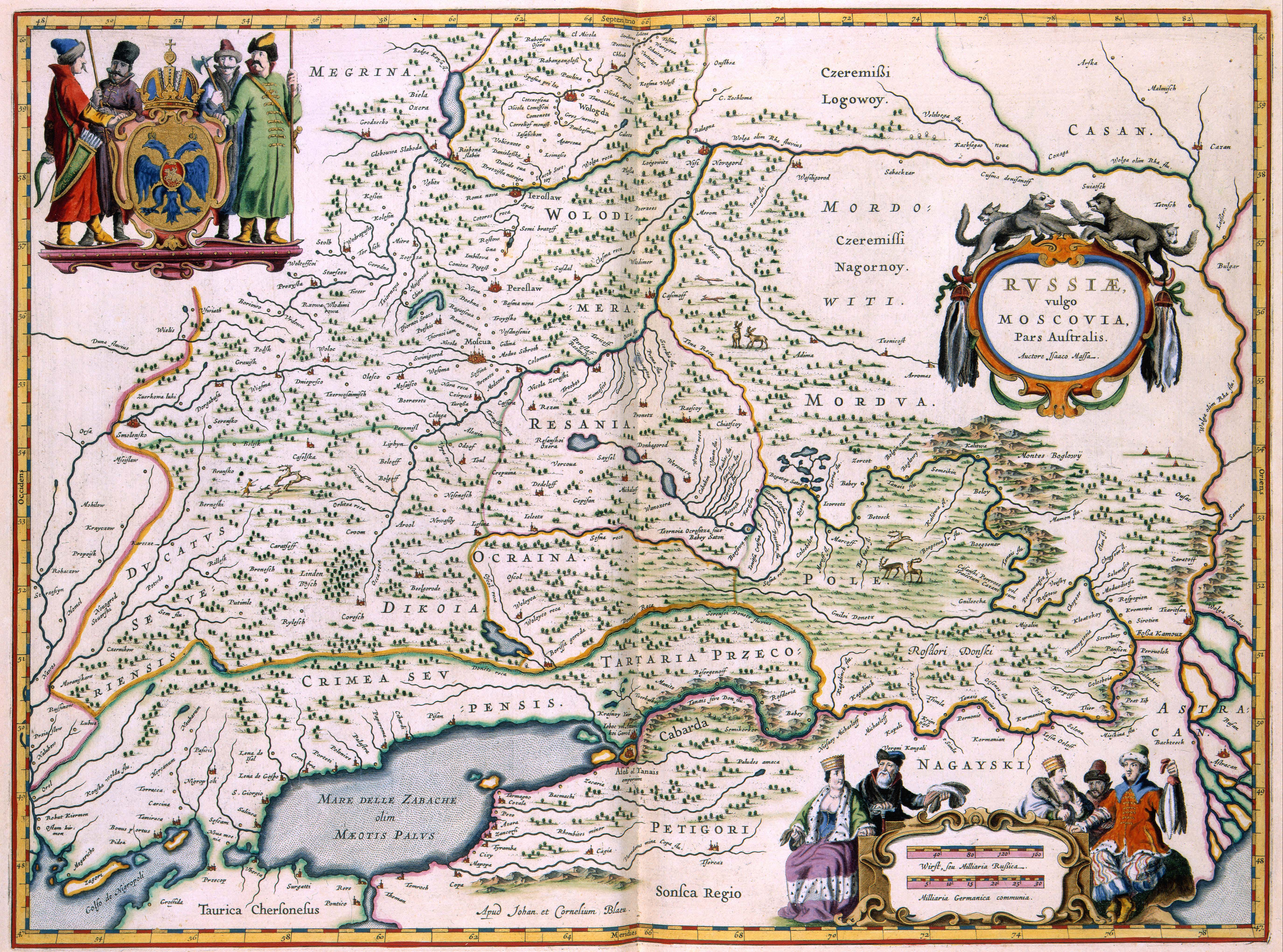 This map of South Russia was published in 1638 by the brothers Joan Blaeu (1598-1673) and Cornelius Blaeu (1610-1642). The map did not provide accurate information about this part of the Russian Empire, but more accurate data was apparently not available at the time. The image on the map is taken from a travel journal from 1610 by the Amsterdam Mayor Isaac Massa (1586-1643). The data gathered by Massa was used by many Dutch printers in the first half of the 17th century as basis for other maps.